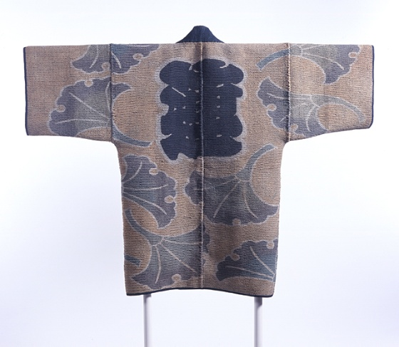 Japan, late Edo period-early Meiji period, 19th century Costumes; outerwear Freehand paste-resist dyeing (tsutsugaki) and hand-painted pigment on plain-weave cotton, cotton thread quilting (sashiko) 35 1/4 x 47 1/2 in. (89.54 x 120.65 cm) Costume Council Fund (M.2000.78) Costume and Textiles